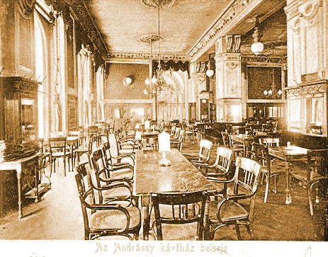 Andrassi coffee house ,Košice